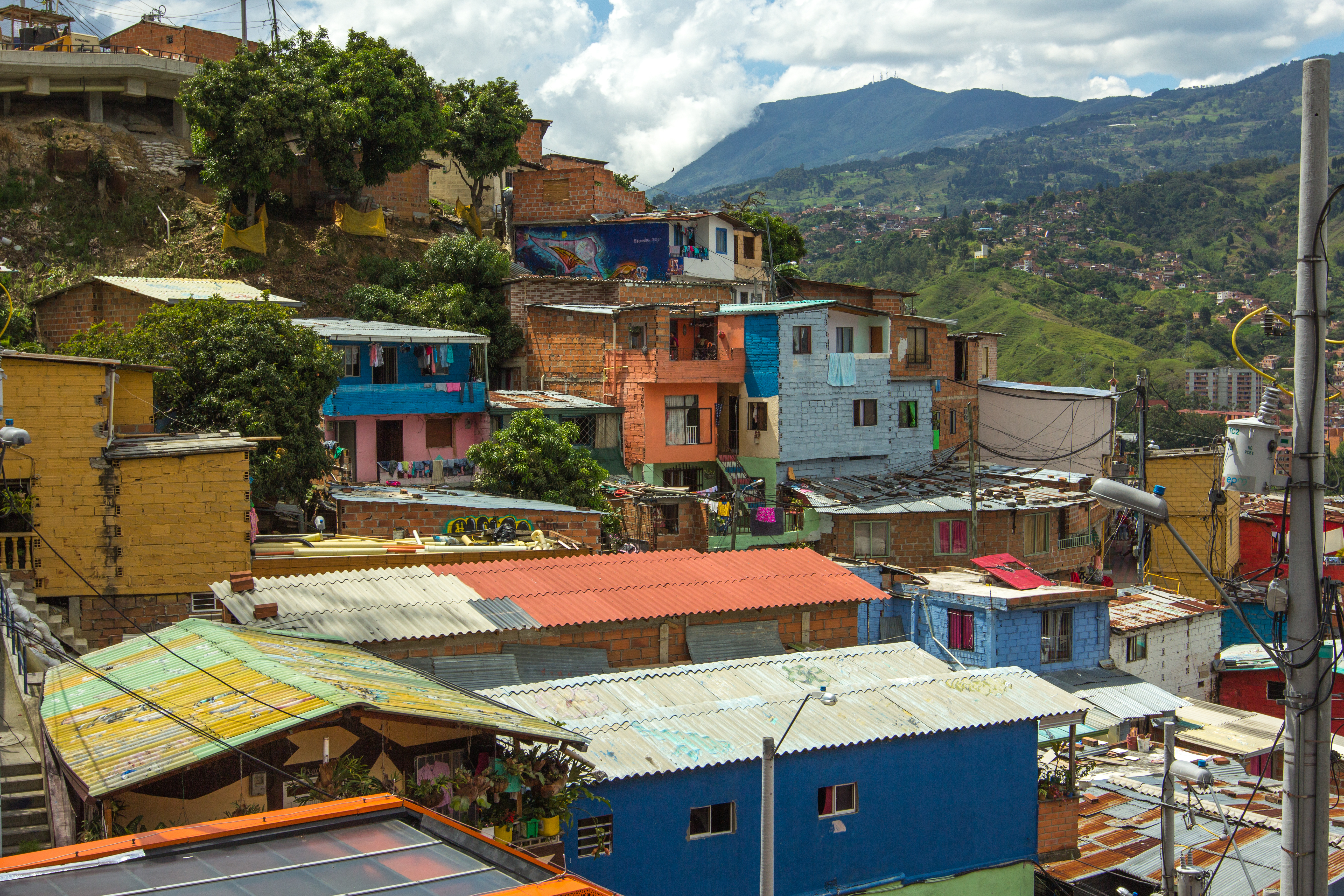 Comune 13, San Javier, Medellín, Colombia